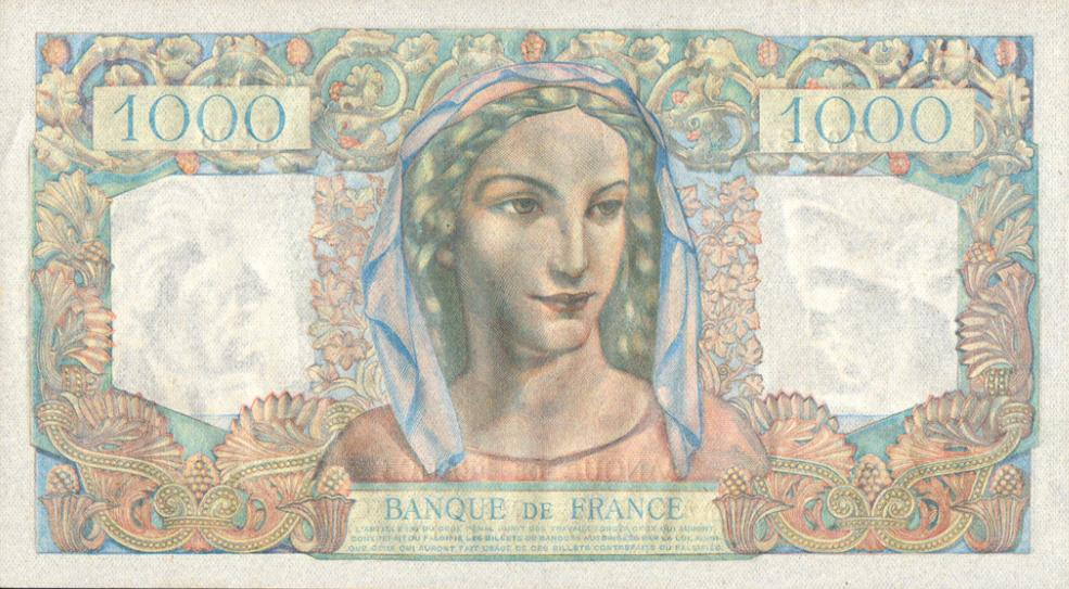 France 1000 francs Minerve et Hercule 02